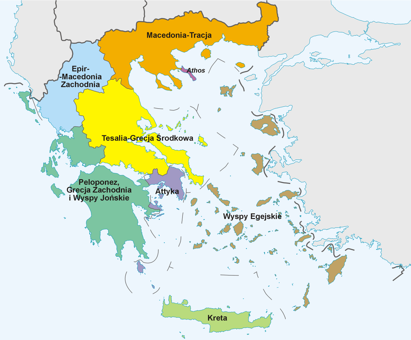 Administrative divisions of Greece – decentralized administrations (1st level administrative divisions)